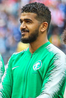 Saudi Arabia national football team